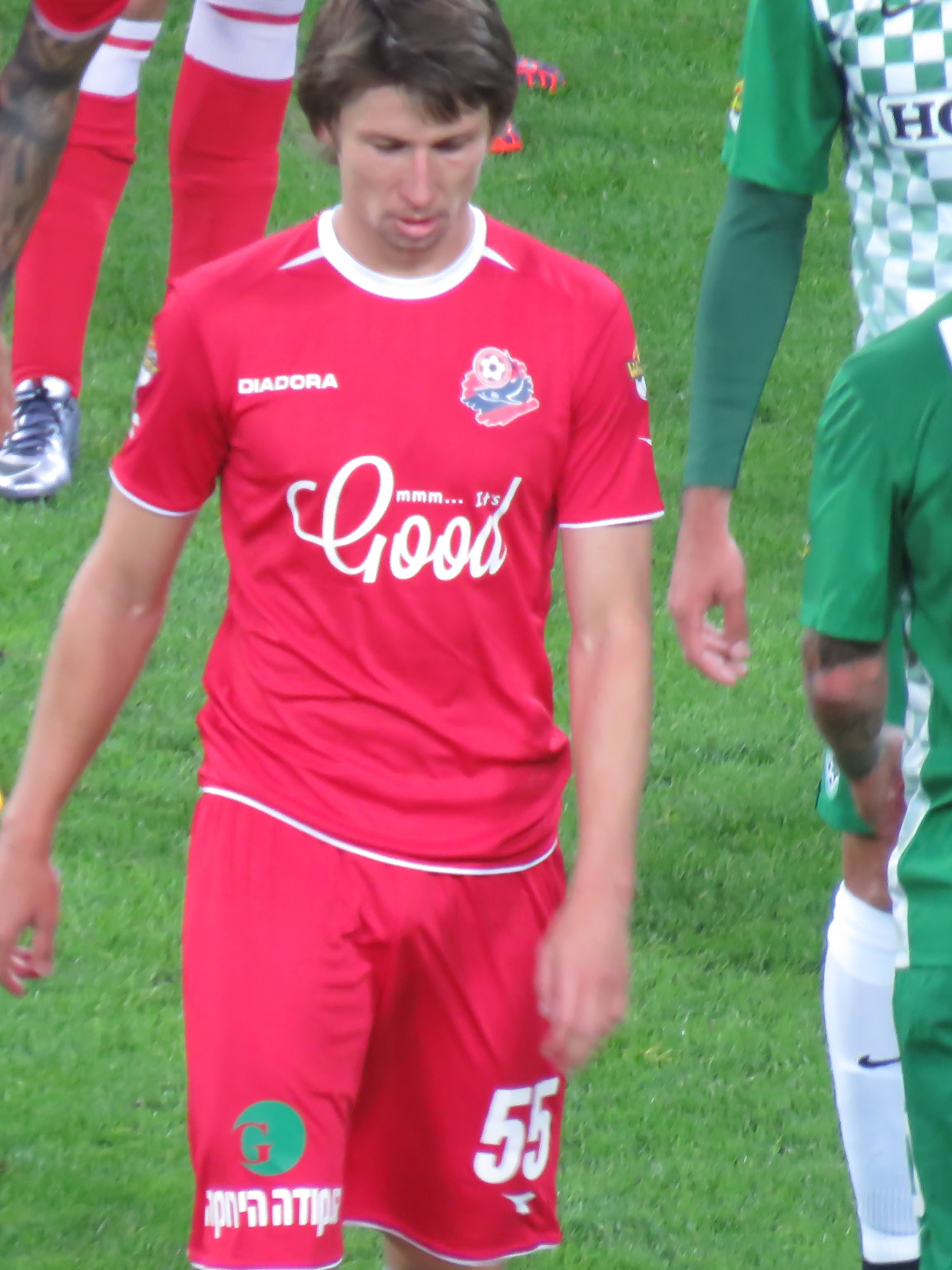 Maccabi Haifa vs. Hapoel Haifa - January 27, 2016